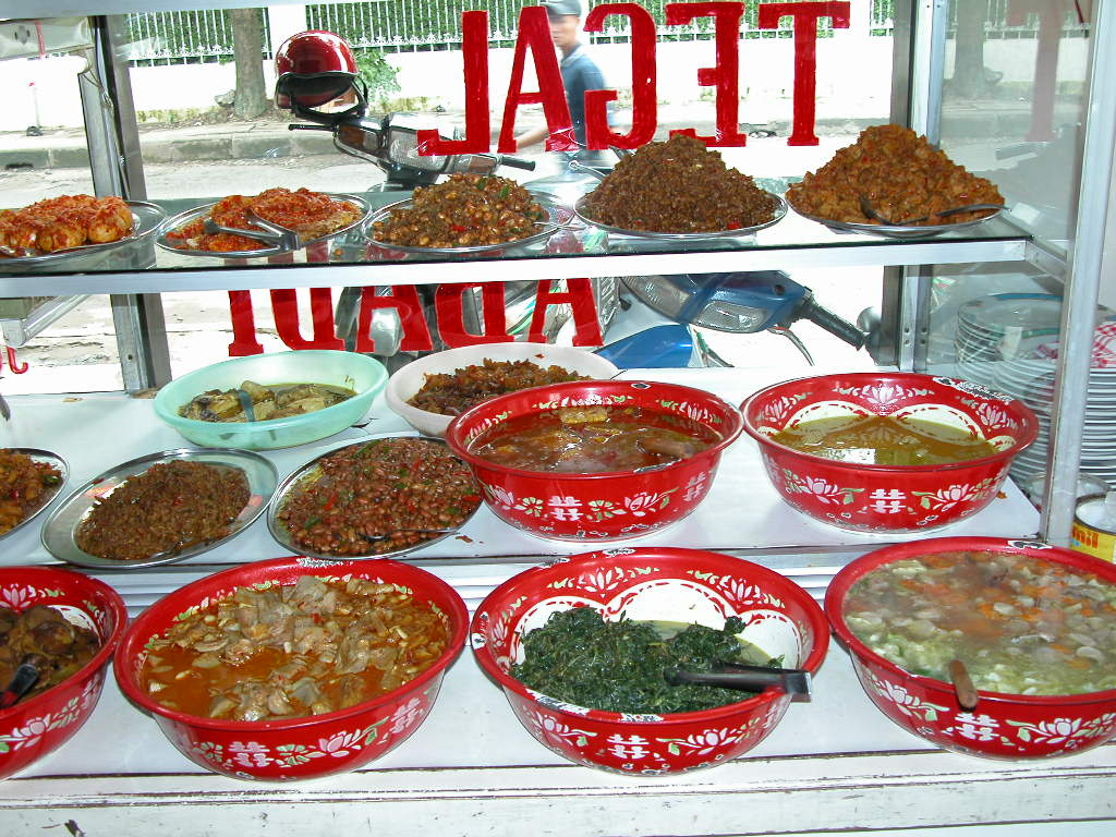 Food at a Warung Tegal (Warteg), food stall serves daily meals at affordable price.